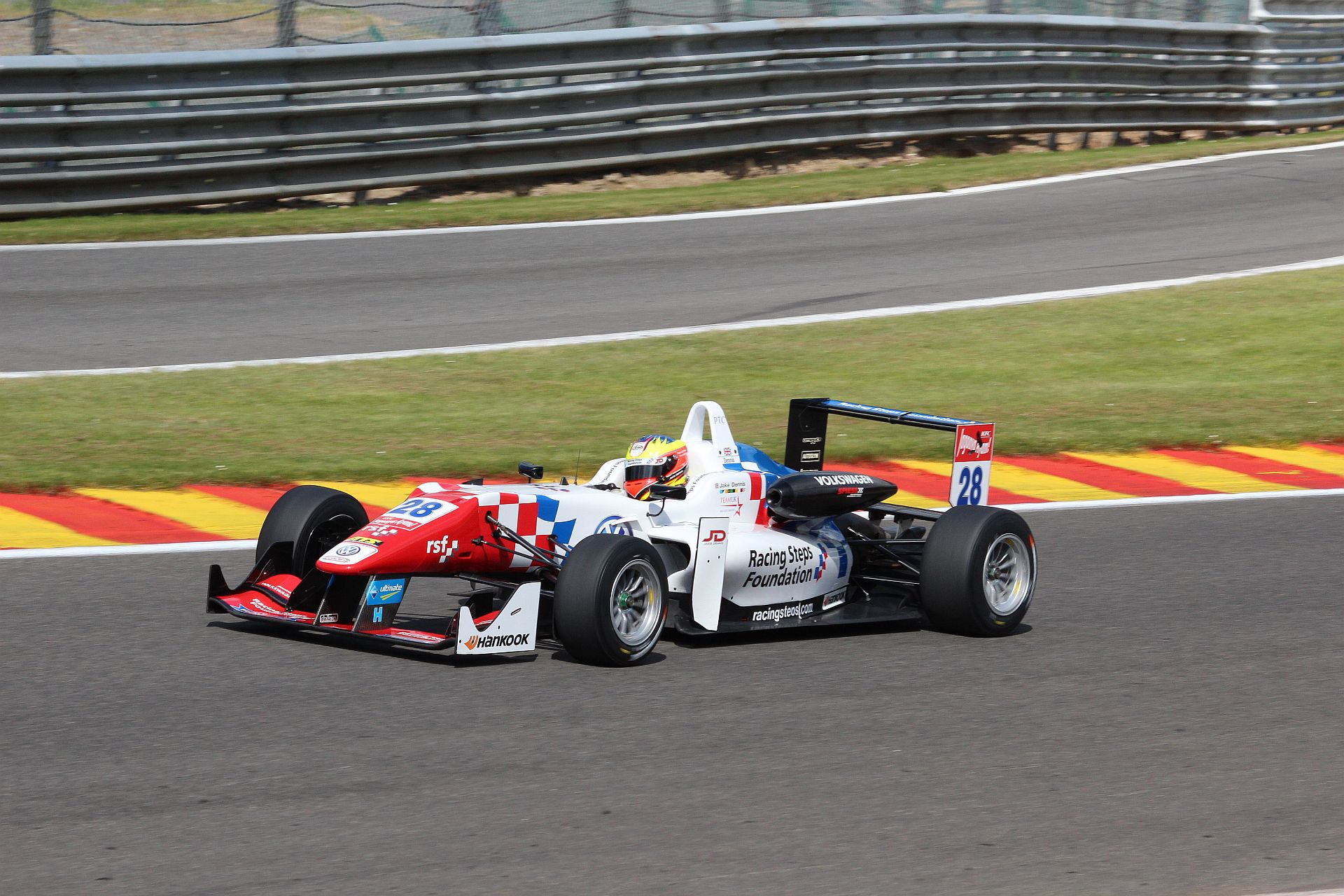 Jake Dennis at Spa in 2014, European Formula 3 Championship